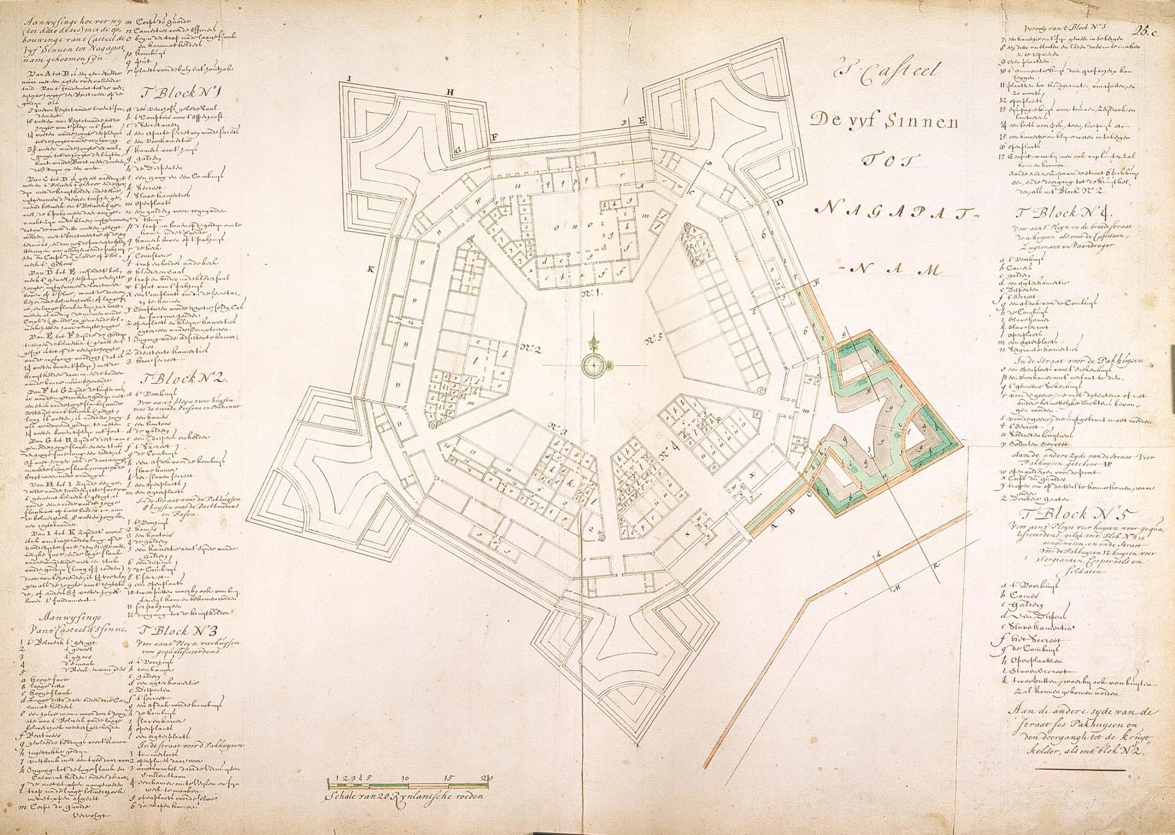 According to the Leupe catalogue (NA), the original title reads: Plan van 't Casteel de Vyf Sinnen, tot Nagapatnam. Various keys.